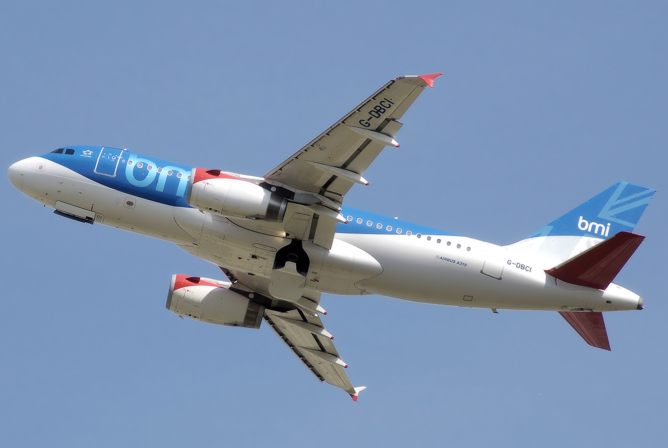 bmi Airbus A319-100 (G-DBCI) takes off from London Heathrow Airport, England. The nose and main undercarriage doors are closing.